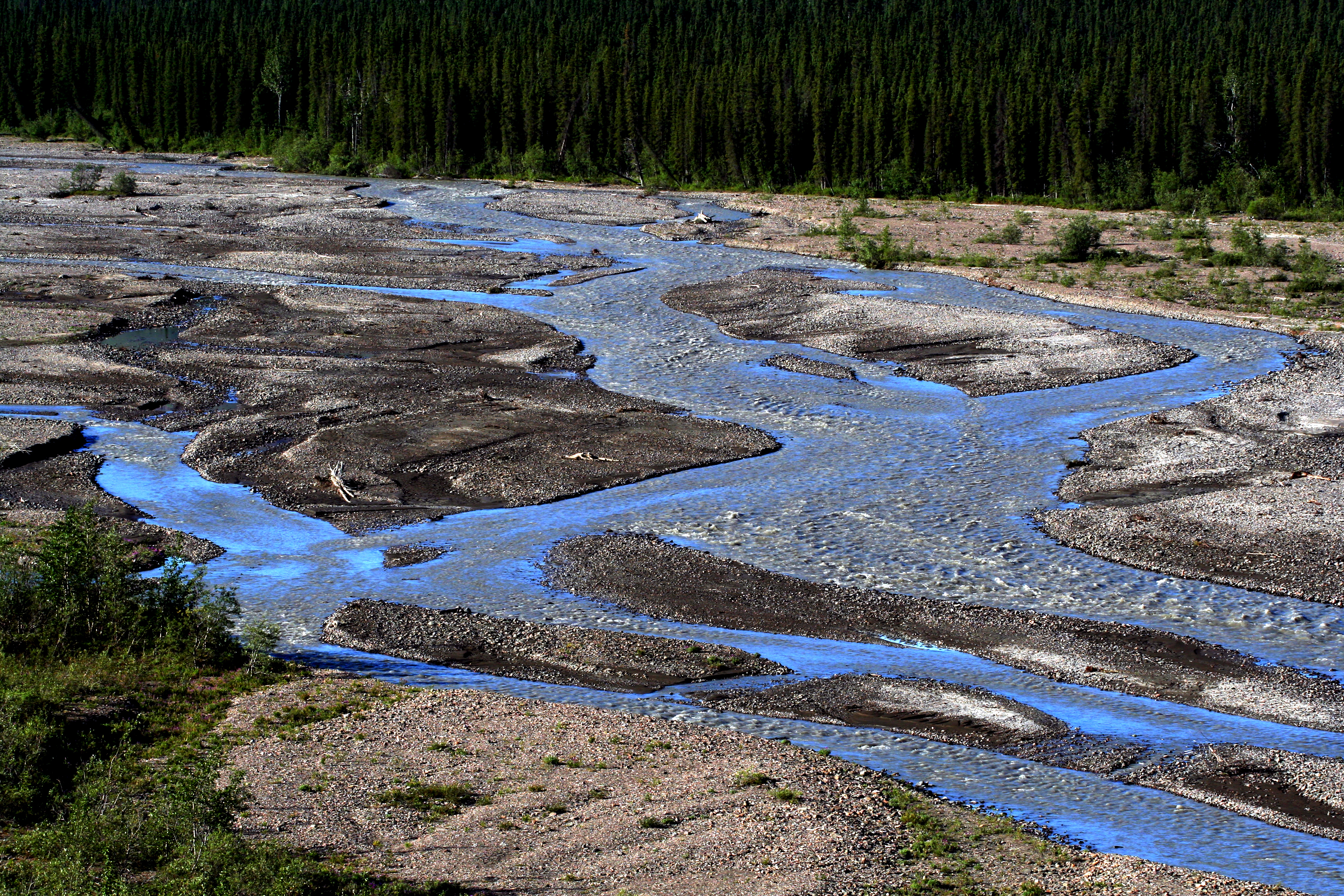 Photographer says this is probably the Teklanika.